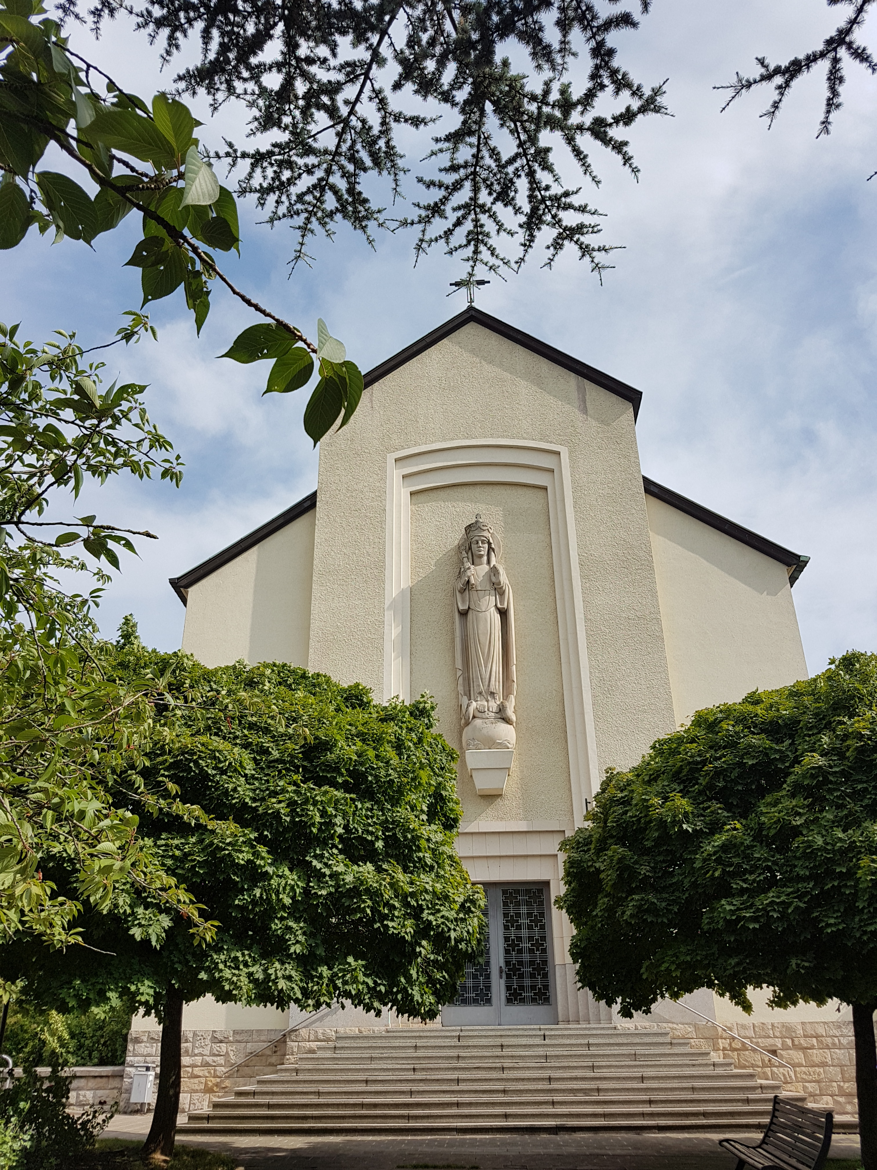 The Roman Catholic Church Marie-Reine du Monde (Eng.: Mary Queen of the World, also Luxembourgish: Kierch Esch-Lalleng) is located in the municipality of Esch-sur-Alzette, in the district Lallange, in the Grand Duchy of Luxembourg.